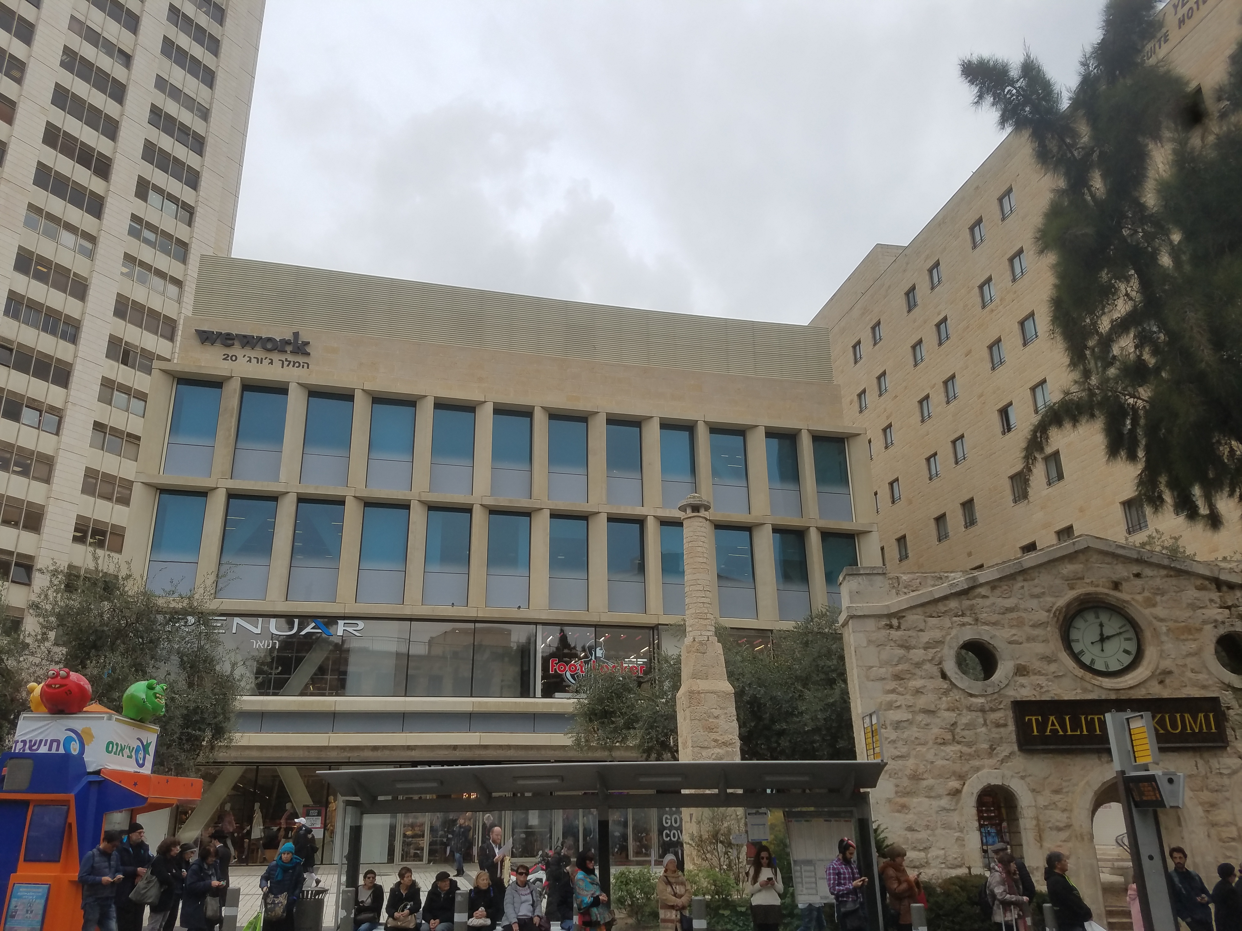 We Work Building in Jerusalem center